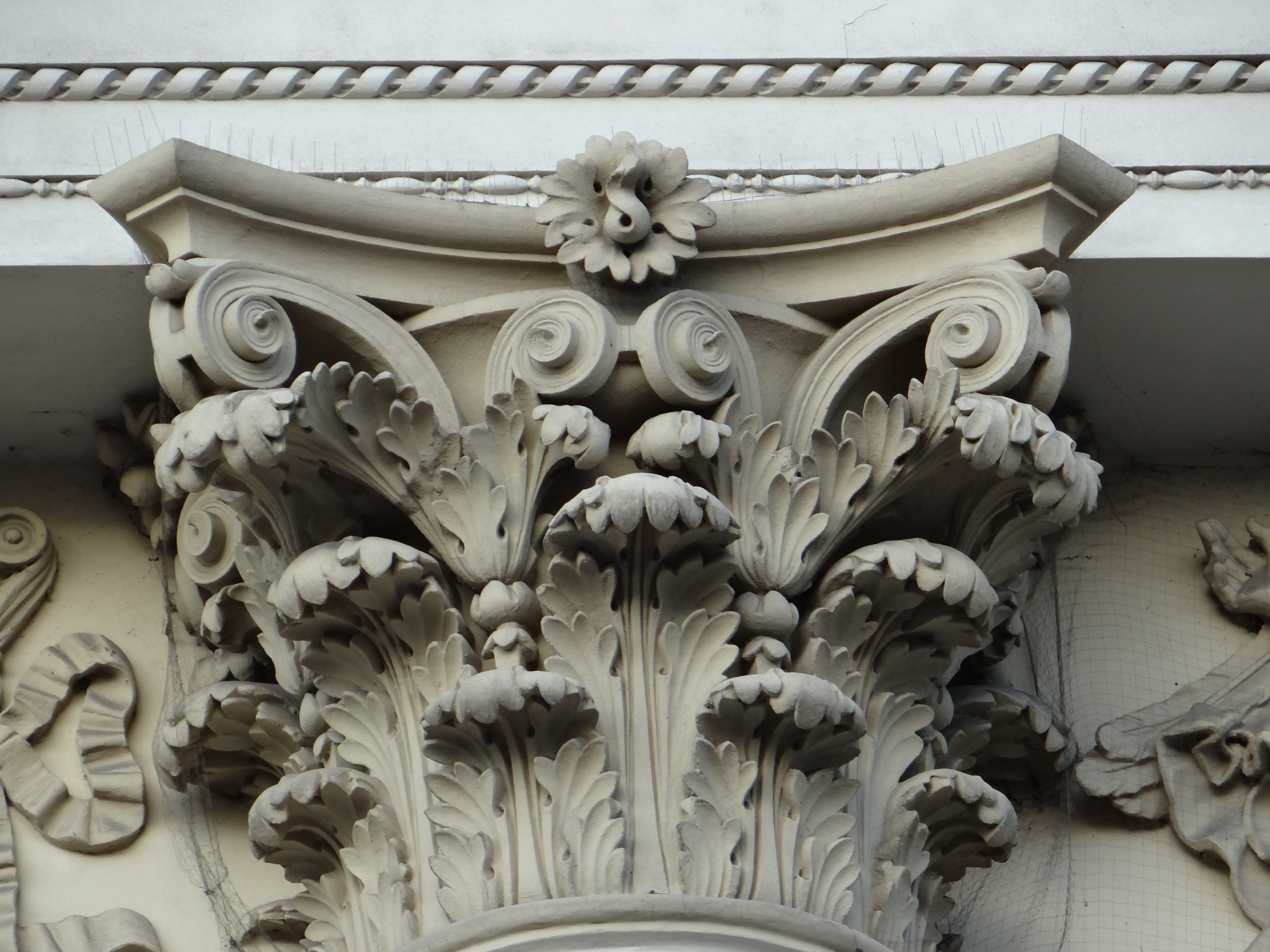 Details of the St. Anne's Church in Warsaw